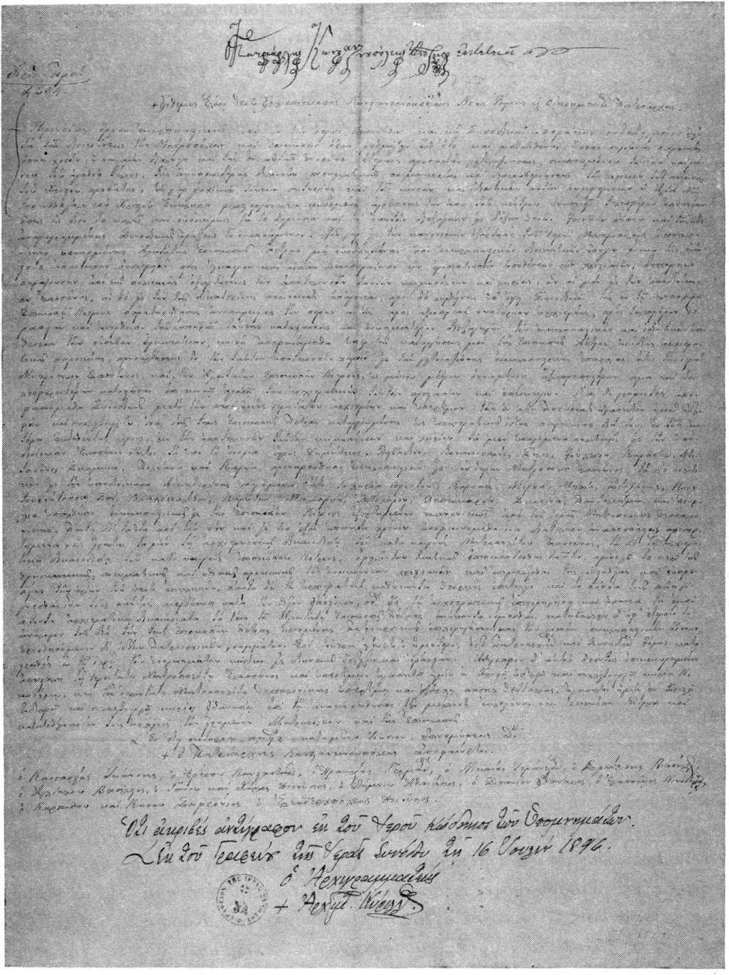 Tomos for the suppression of Petras Bishopric 1896